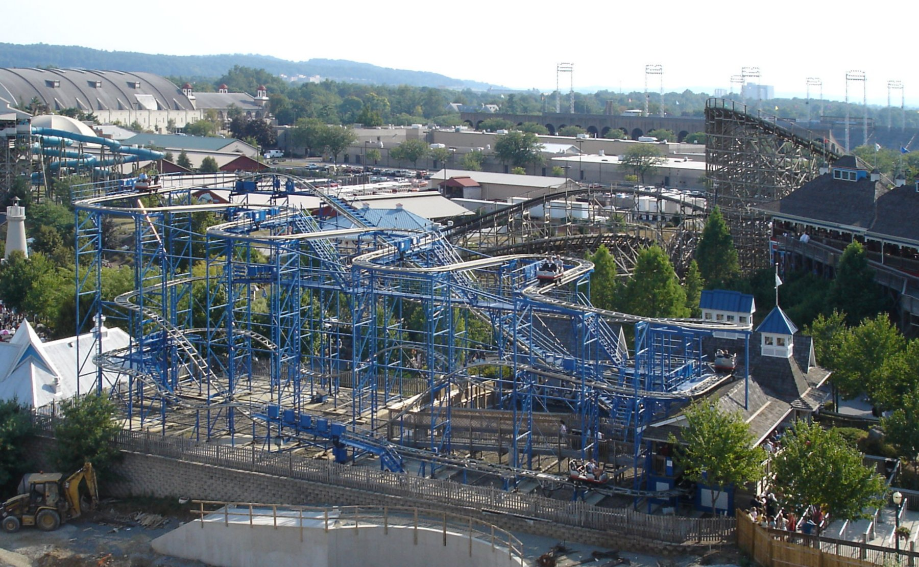 Wild Mouse ride at Hersheypark, Hershey PA, US. Taken from top of ferris wheel. Photo was cropped and corrected for perspective distortion.